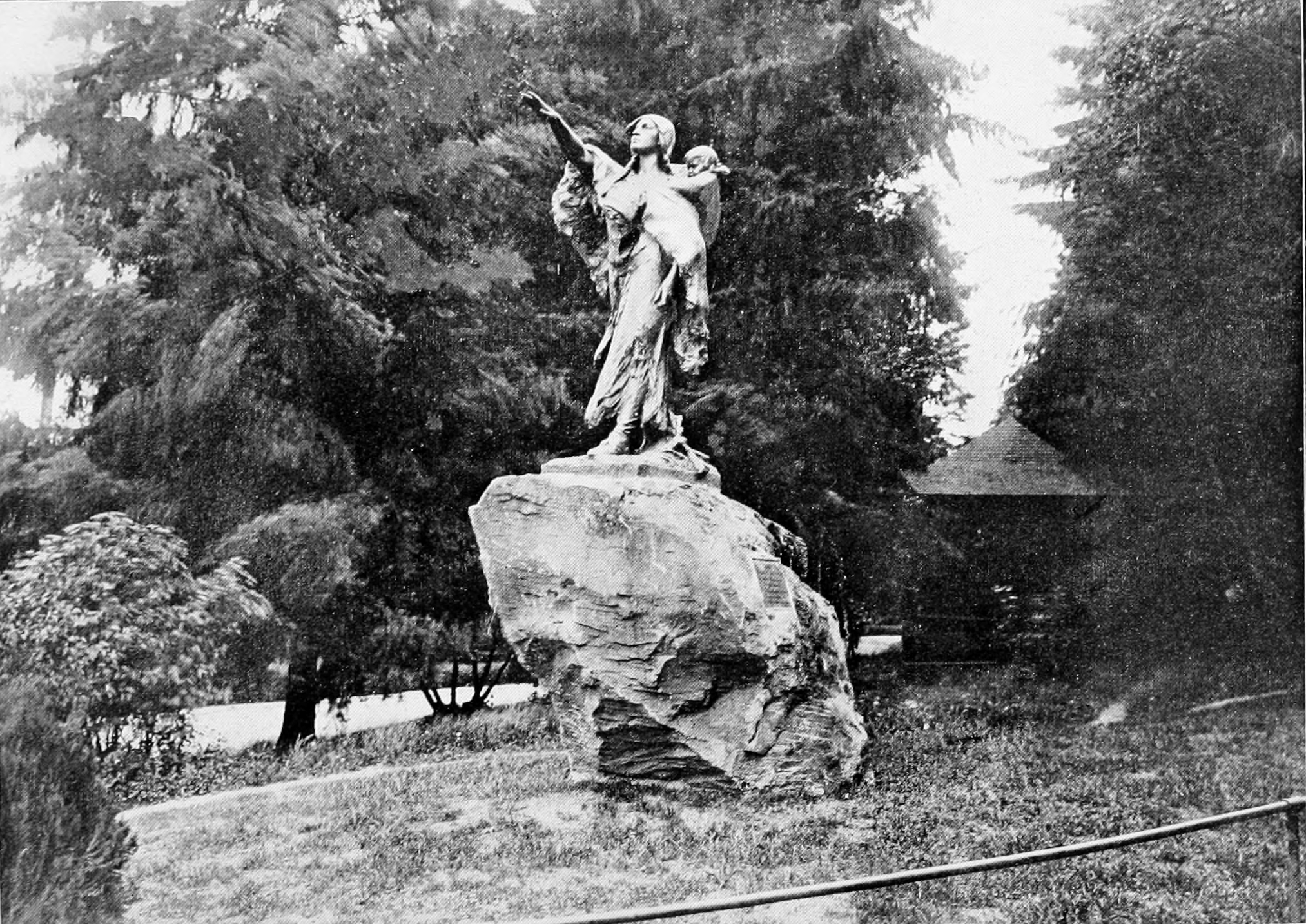 Sacajawea, sculpted by Alice Cooper (1875 – 1937) of Denver, Colorado, and unveiled in the 1905 Lewis and Clark Exposition in Portland, Oregon.